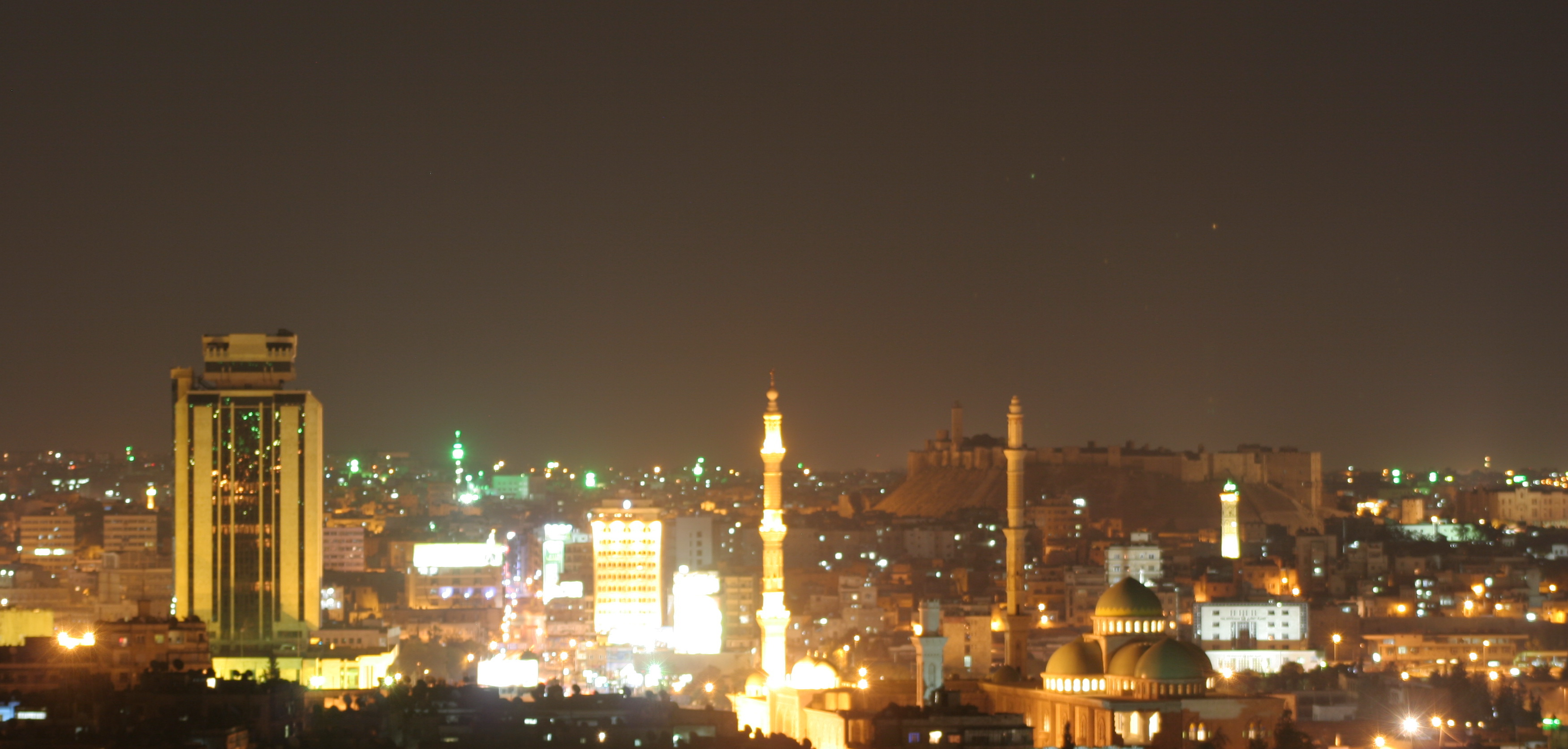 Aleppo city centre at night